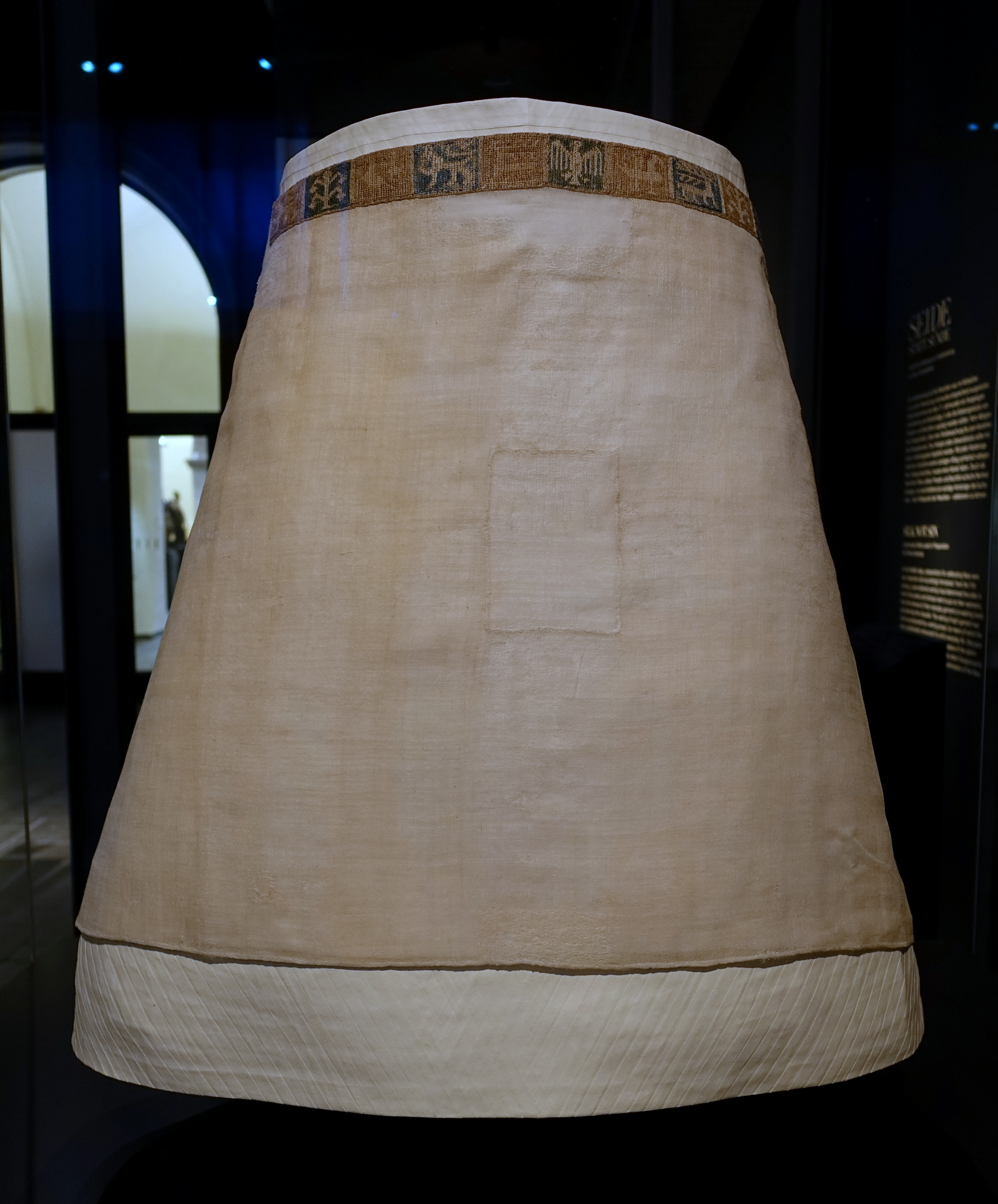 Exhibit in the Museum Schnütgen - Cologne, Germany.